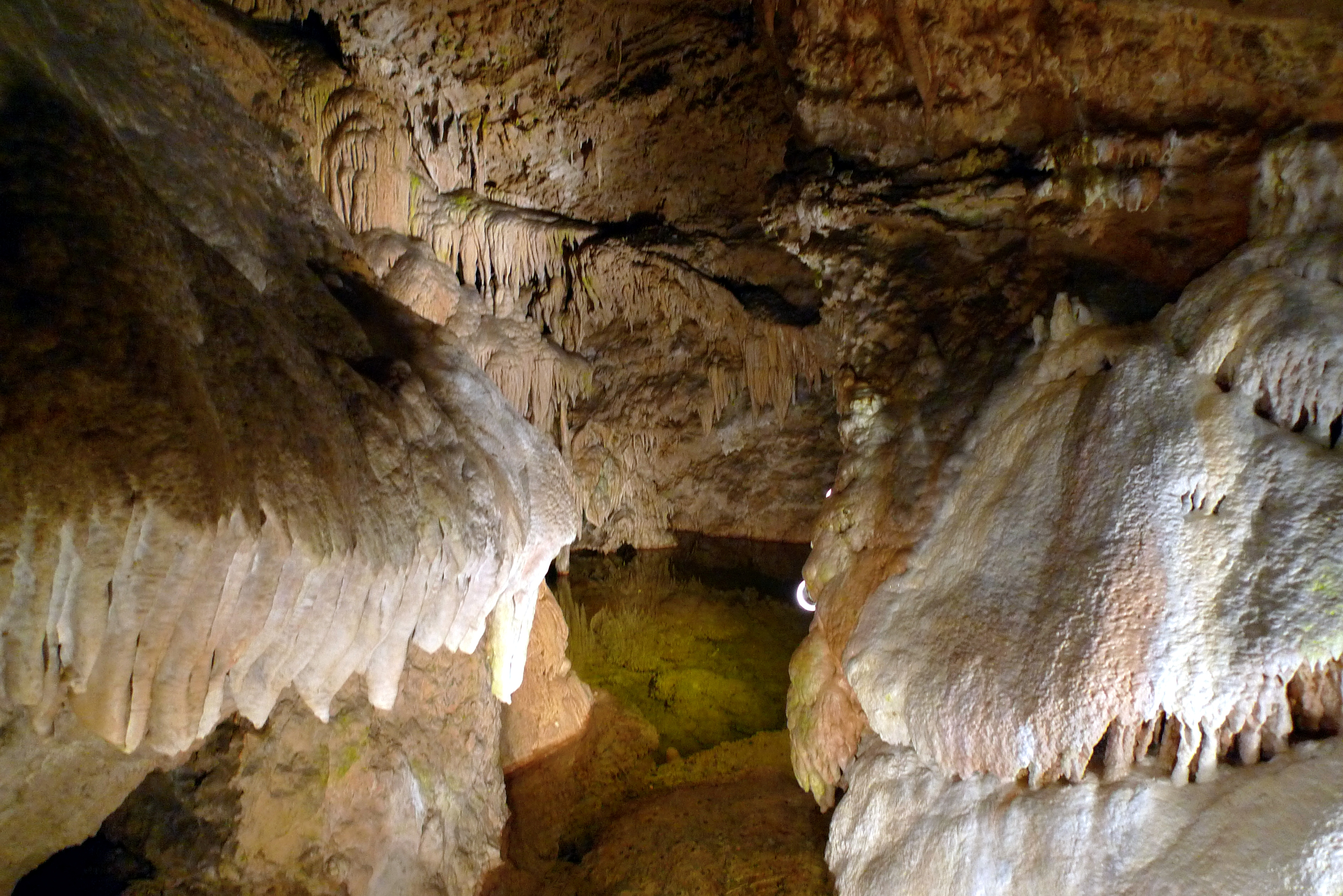 Bielanska cave in Slovakia